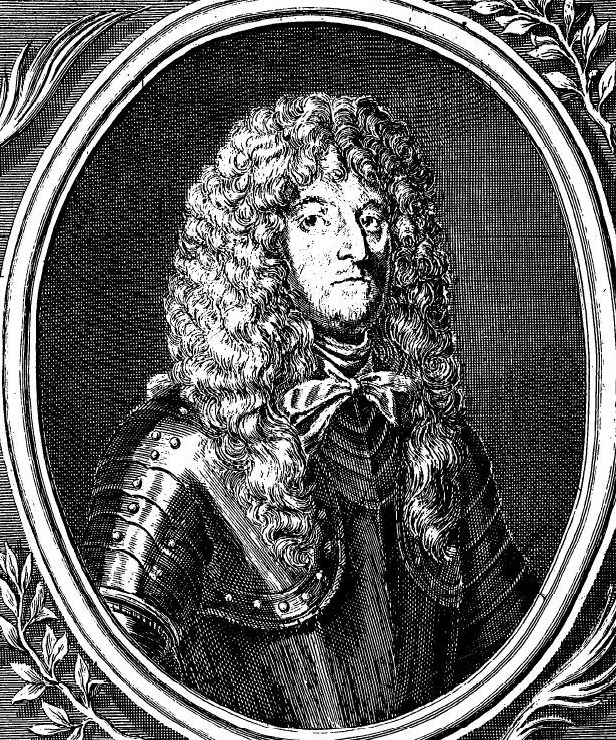 Portrait of Otto Wilhelm von Königsmarck (1639-1688)